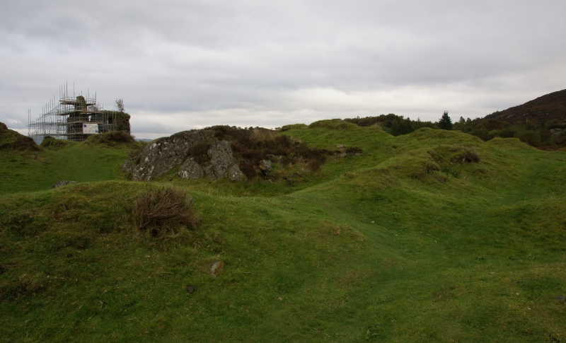 Tarbert Castle, Tarbert, Argyll and Bute, Scotland.